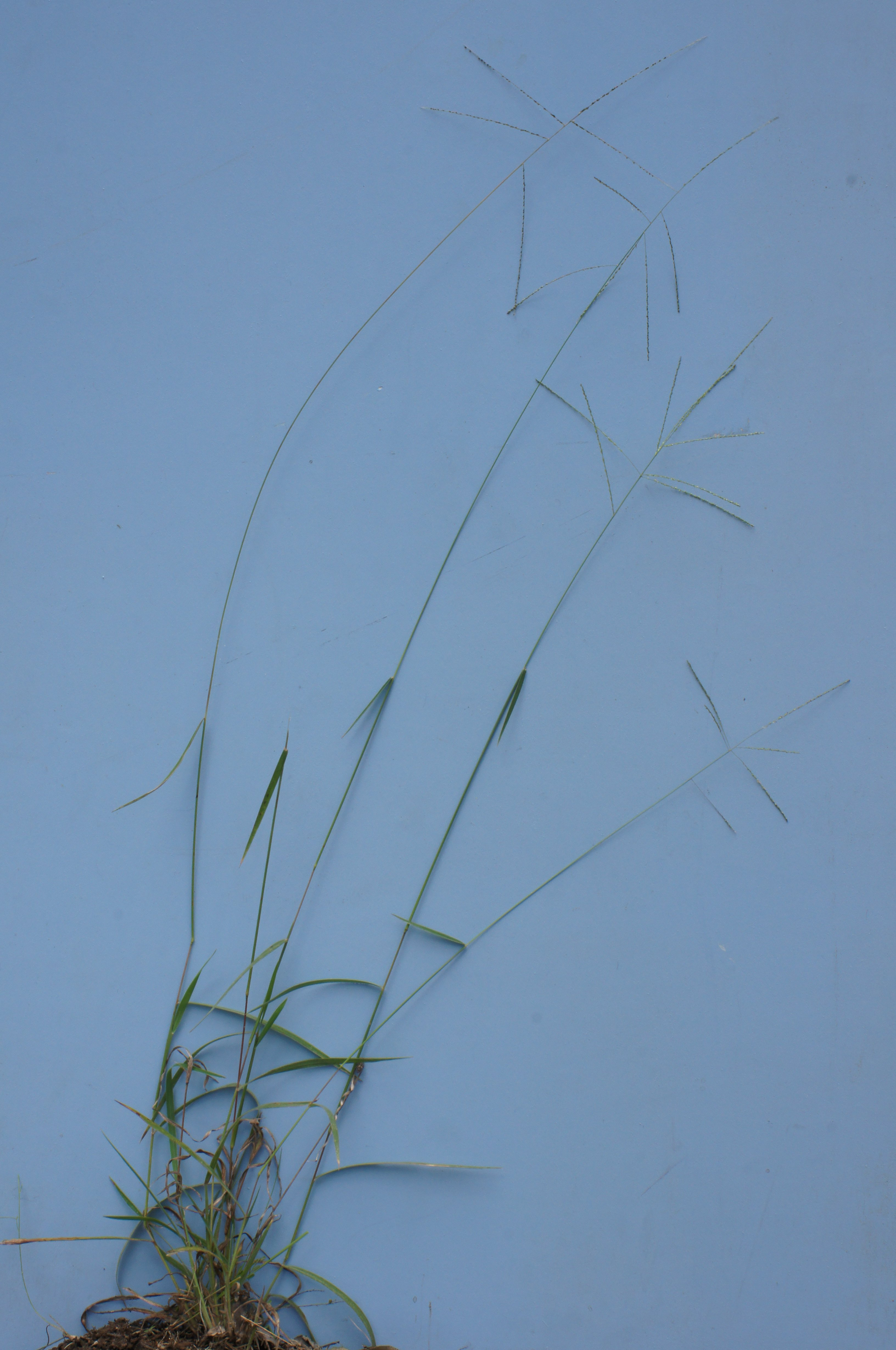 Mostly found in shaded areas of woodlands and forests. Occurs on low fertility sands to clays and in both disturbed and natural areas.